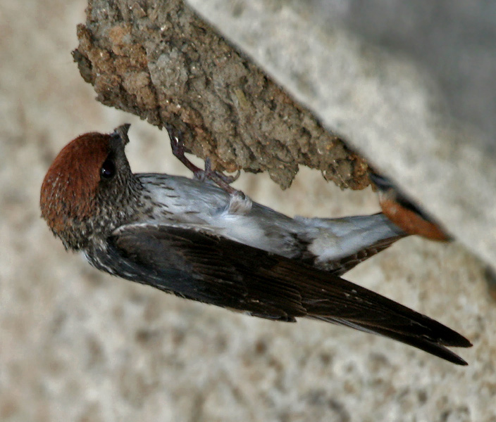 Streaked-throated Swallow Hirundo fluvicola in Kawal Wildlife Sanctuary, Andhra Pradesh, India.